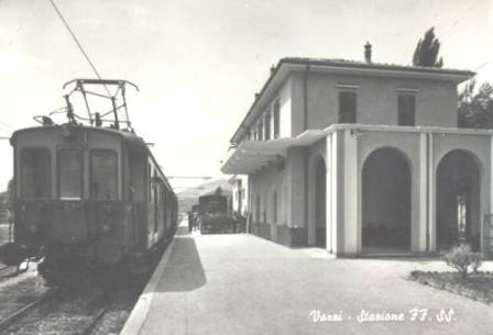 Varzi railway station - 1